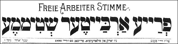 Header for out of publication newspaper.